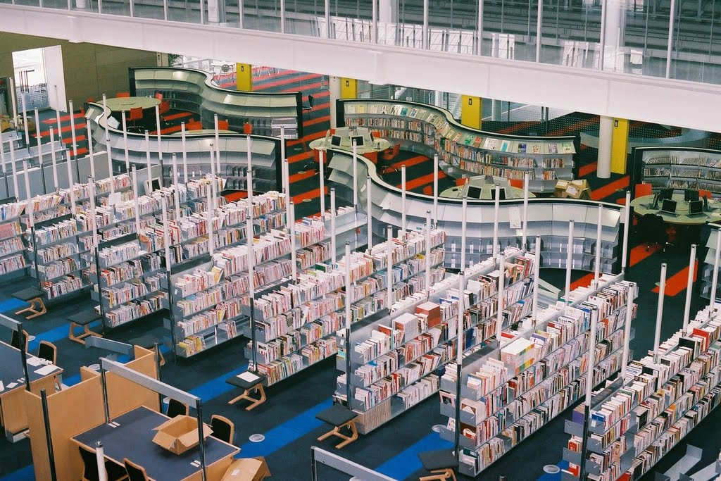 This is the interior of Yuki Library in Yuki, Ibaraki, Japan.